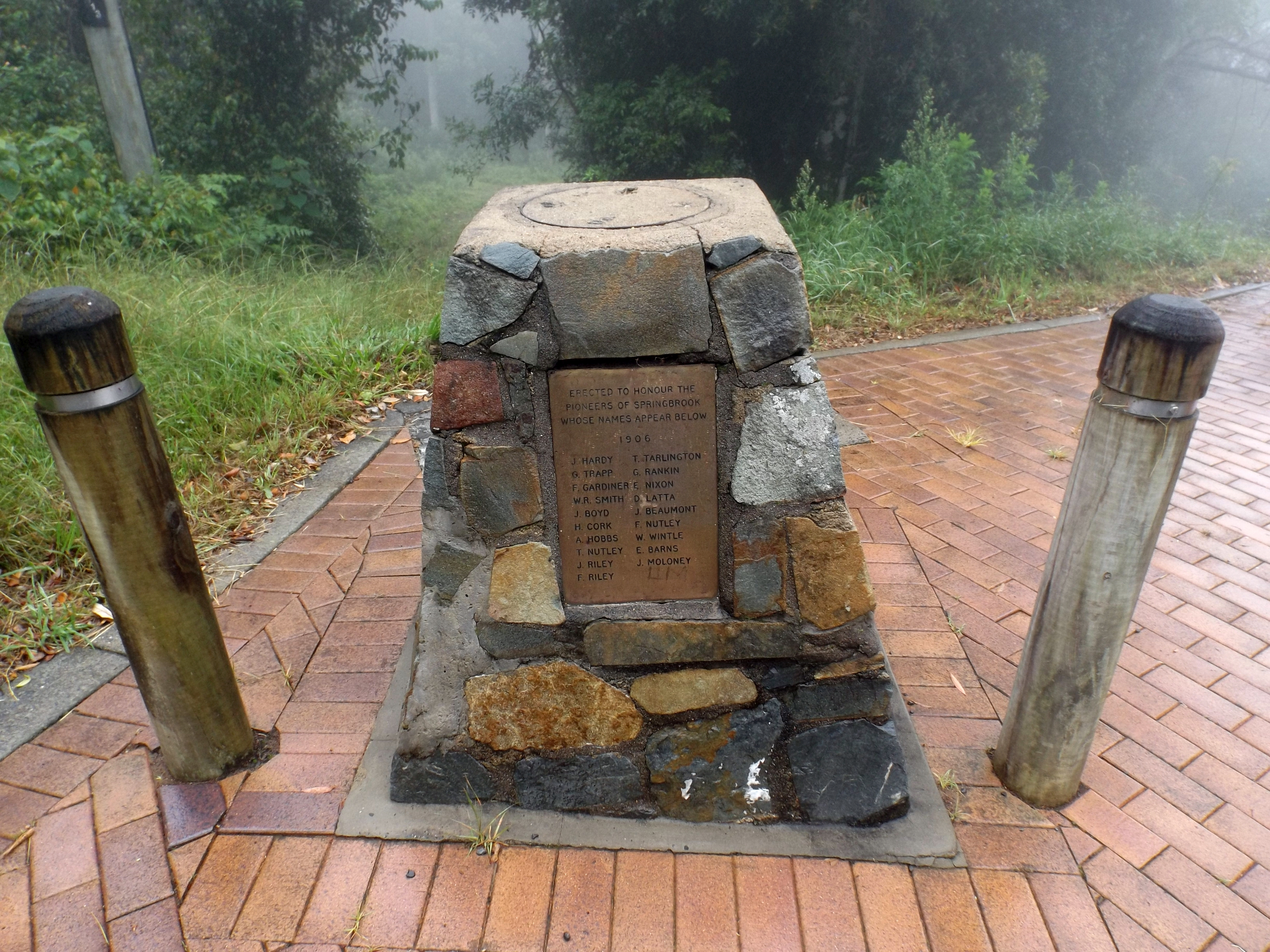 Photo of Pioneers Memorial along Springbrook Road at Springbrook, City of Gold Coast, Queensland, Australia.